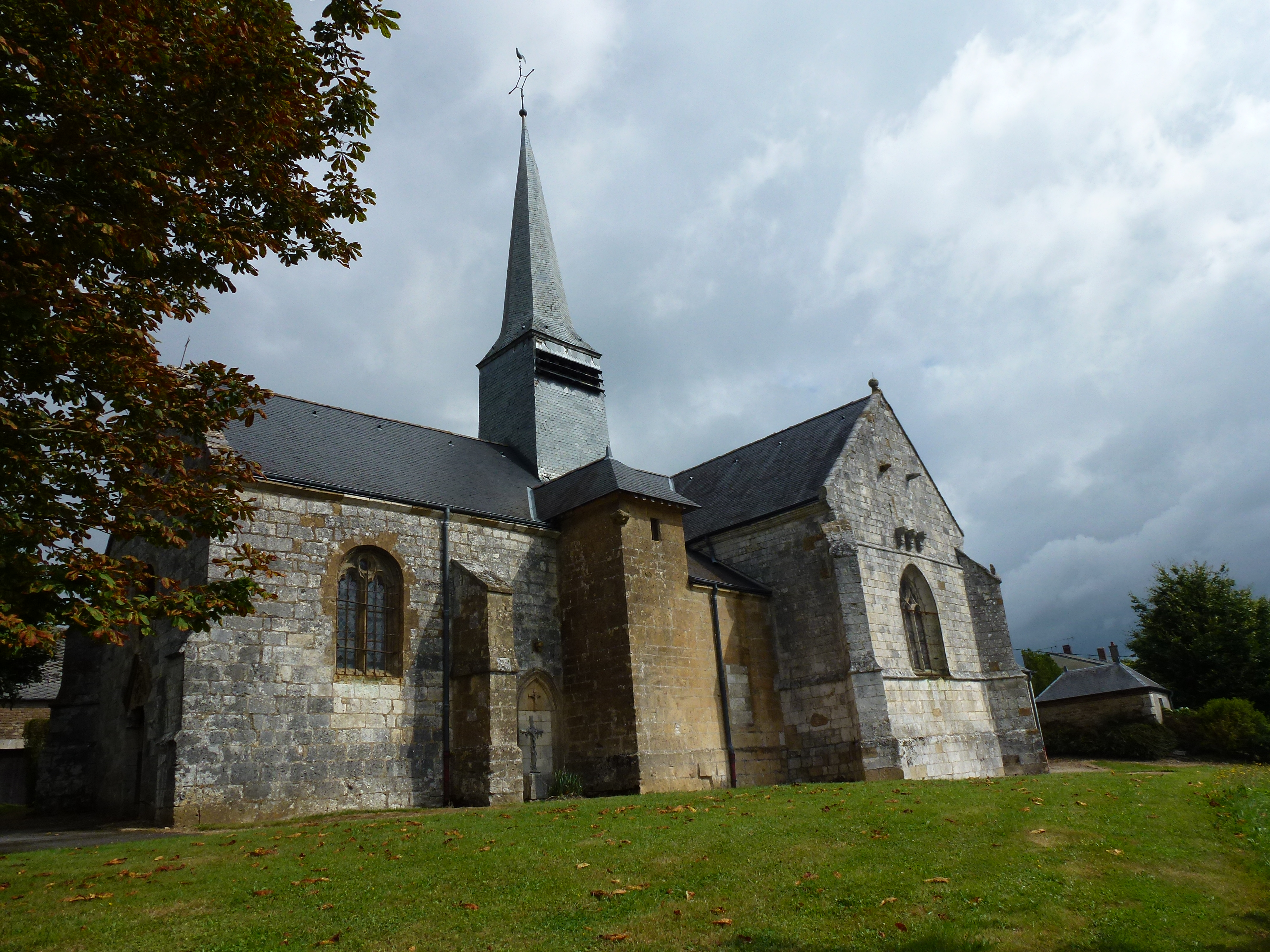 Raillicourt (Ardennes) église Saint-Martin .